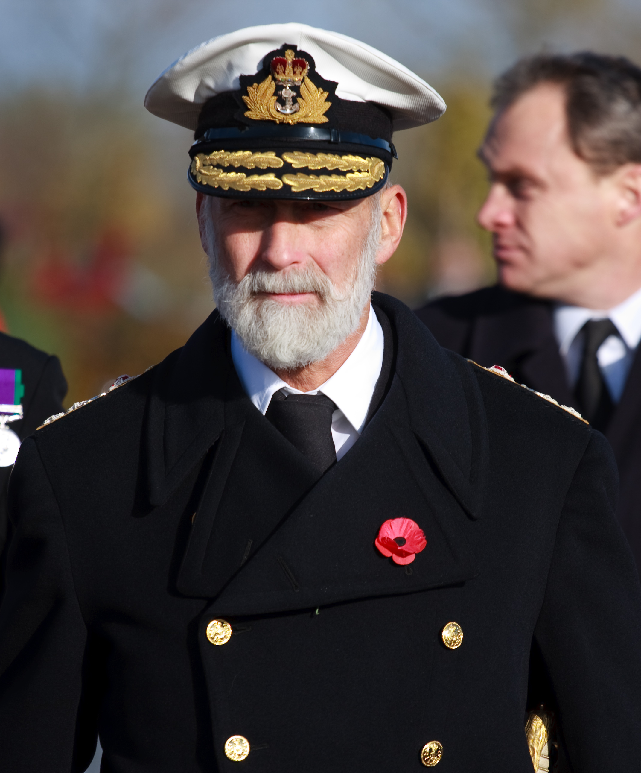 Prince Michael of Kent, a member of the British Royal Family.